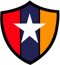 Emblem of the Myanmar Police Force, worn as a patch on uniforms.